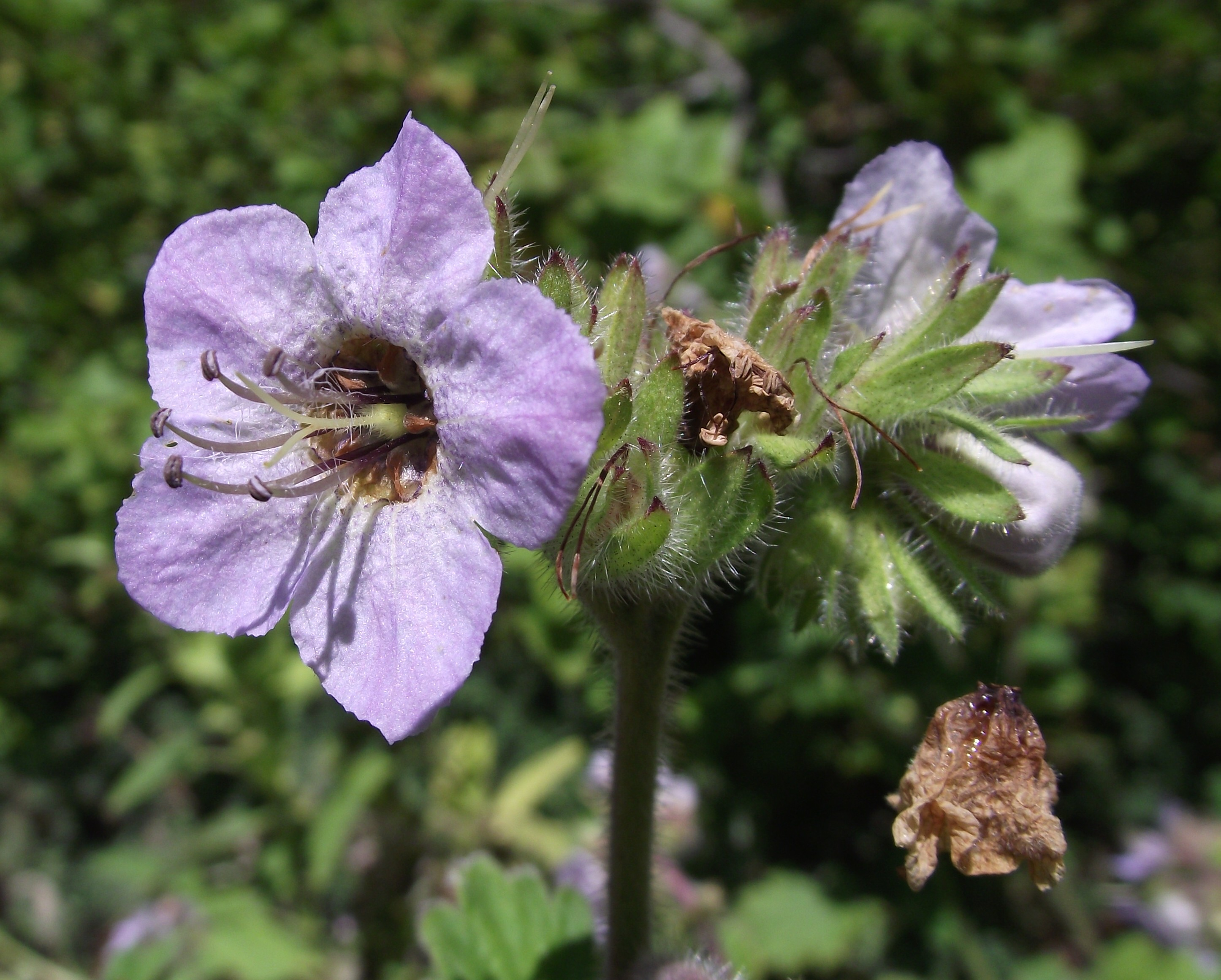 Phacelia bolanderi at the UC Botanical Garden, Berkeley, California, USA. Identified by sign.